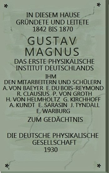 Inscription of the commemorative plaque Gustav Magnus